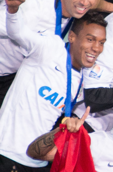 Players of SC COrinthians.